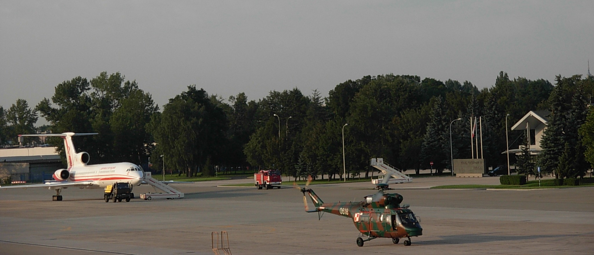 Okęcie Airport in Warsaw (WAW), Apron of the Military Airport with Tupolev 154 and Sokol helicpoter